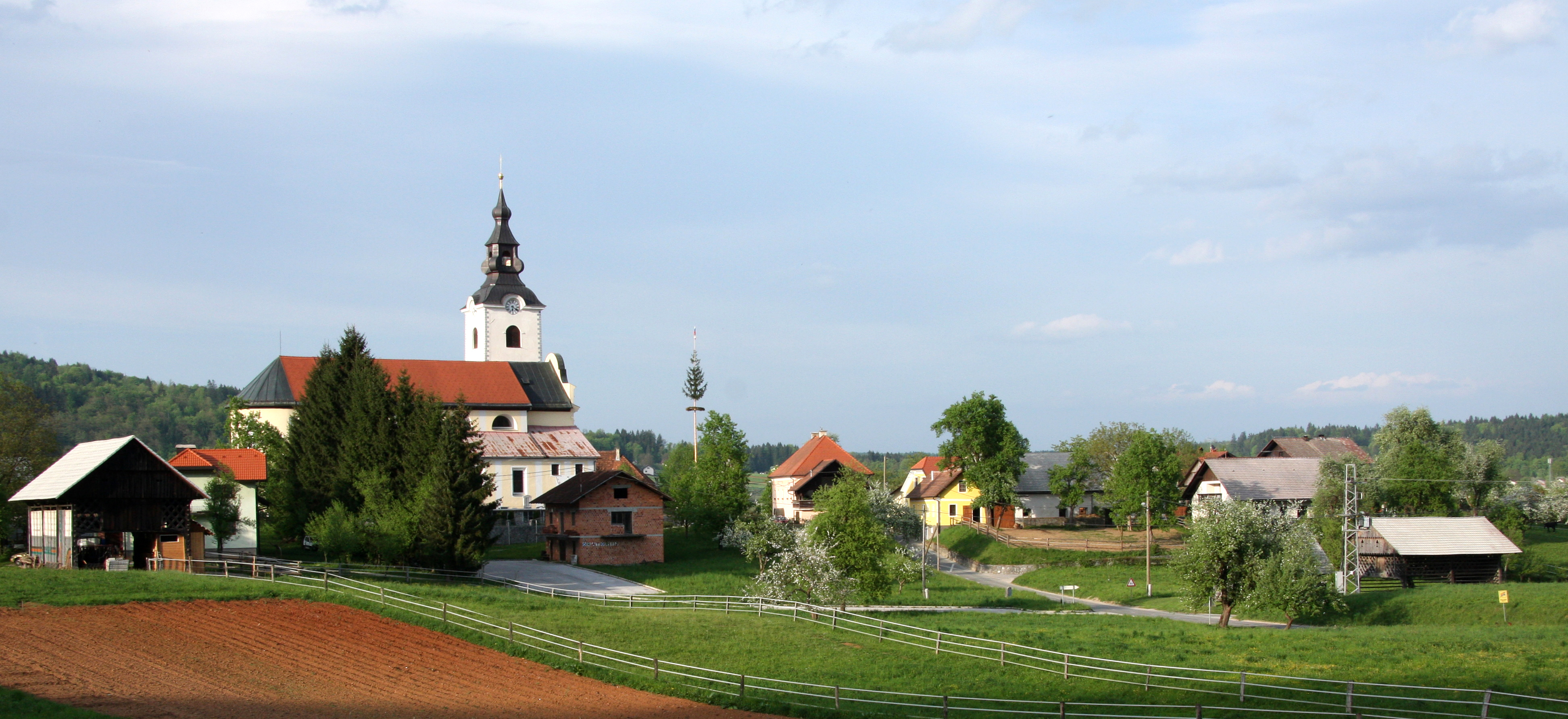 Krka, a village in Ivančna Gorica municipality, Slovenia